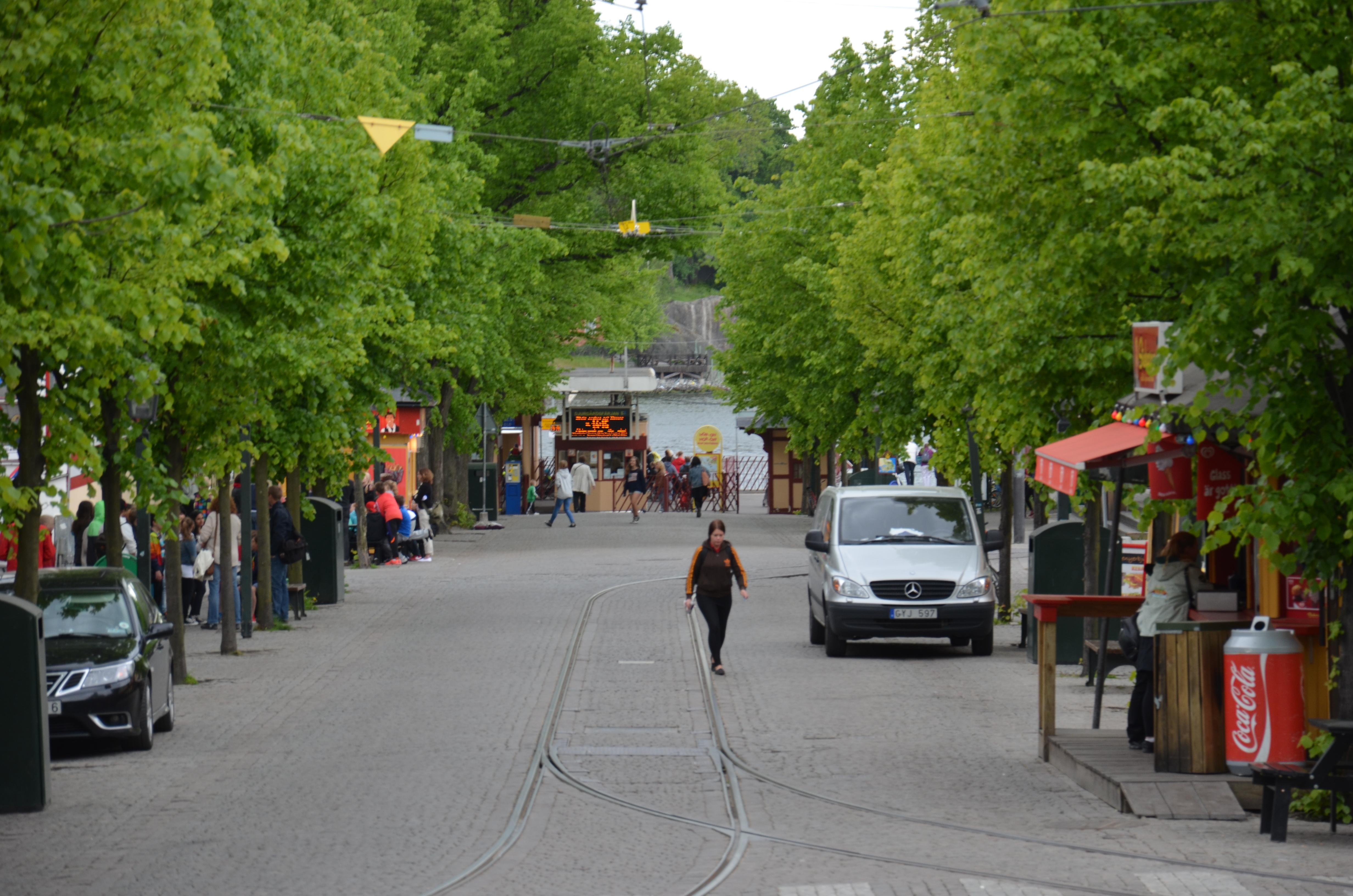 Allmänna gränd, Djurgården, Stockholm. Photo from Djurgårdsvägen towards the ferry terminal.